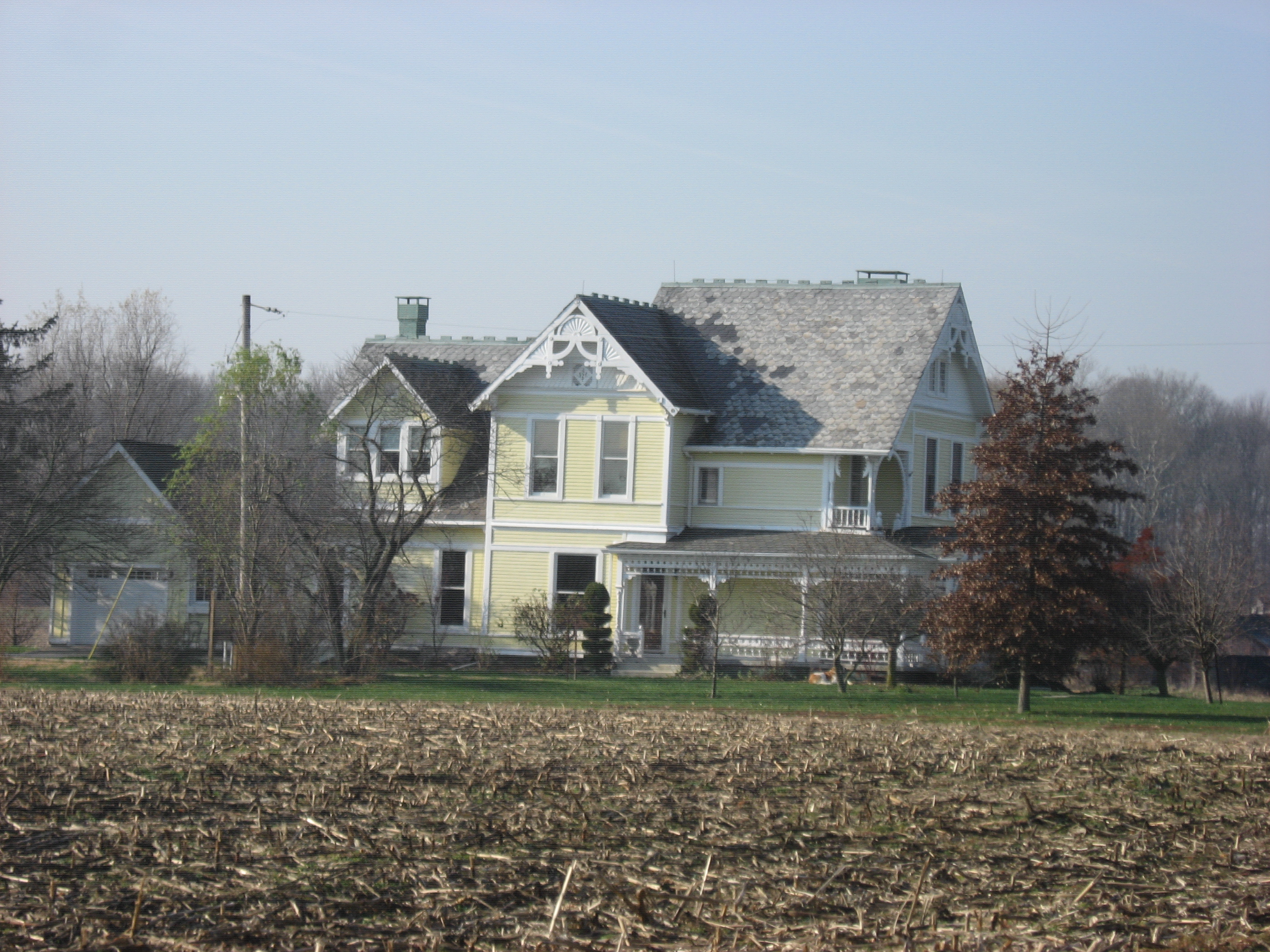 Eastern side and front of the Elnora Daugherty Farmhouse, located at 5541 E500S south of Columbus in Sand Creek Township, Bartholomew County, Indiana, United States. Built in 1892, it is listed on the National Register of Historic Places.